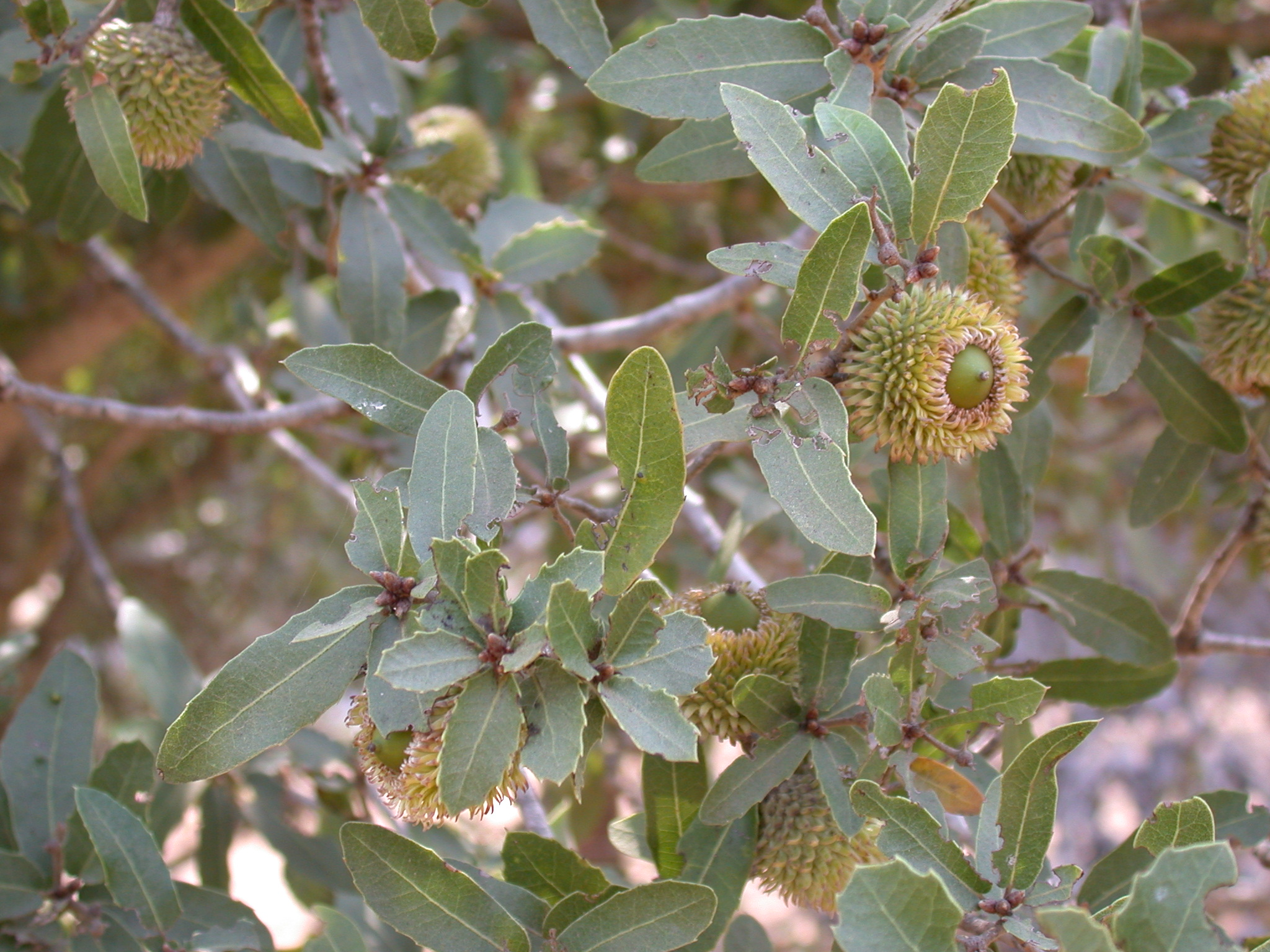 Quercus calliprinos (syn. Quercus coccifera ssp calliprinos Holmboe) , leaves and acorns, Mount Carmel, September 7, 2008.